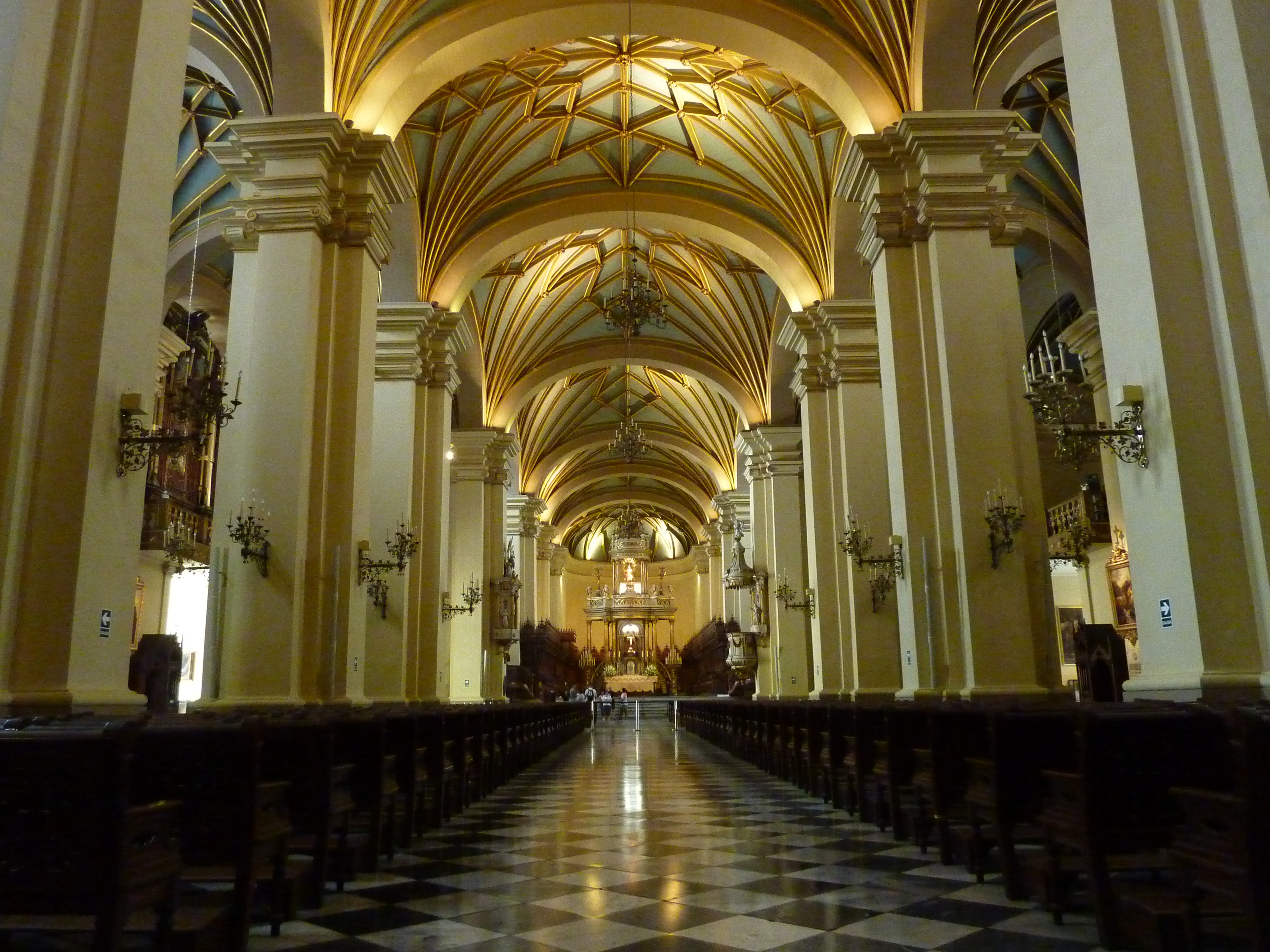 Interior (nave) of the Cathedral of Lima, Lima, Peru.